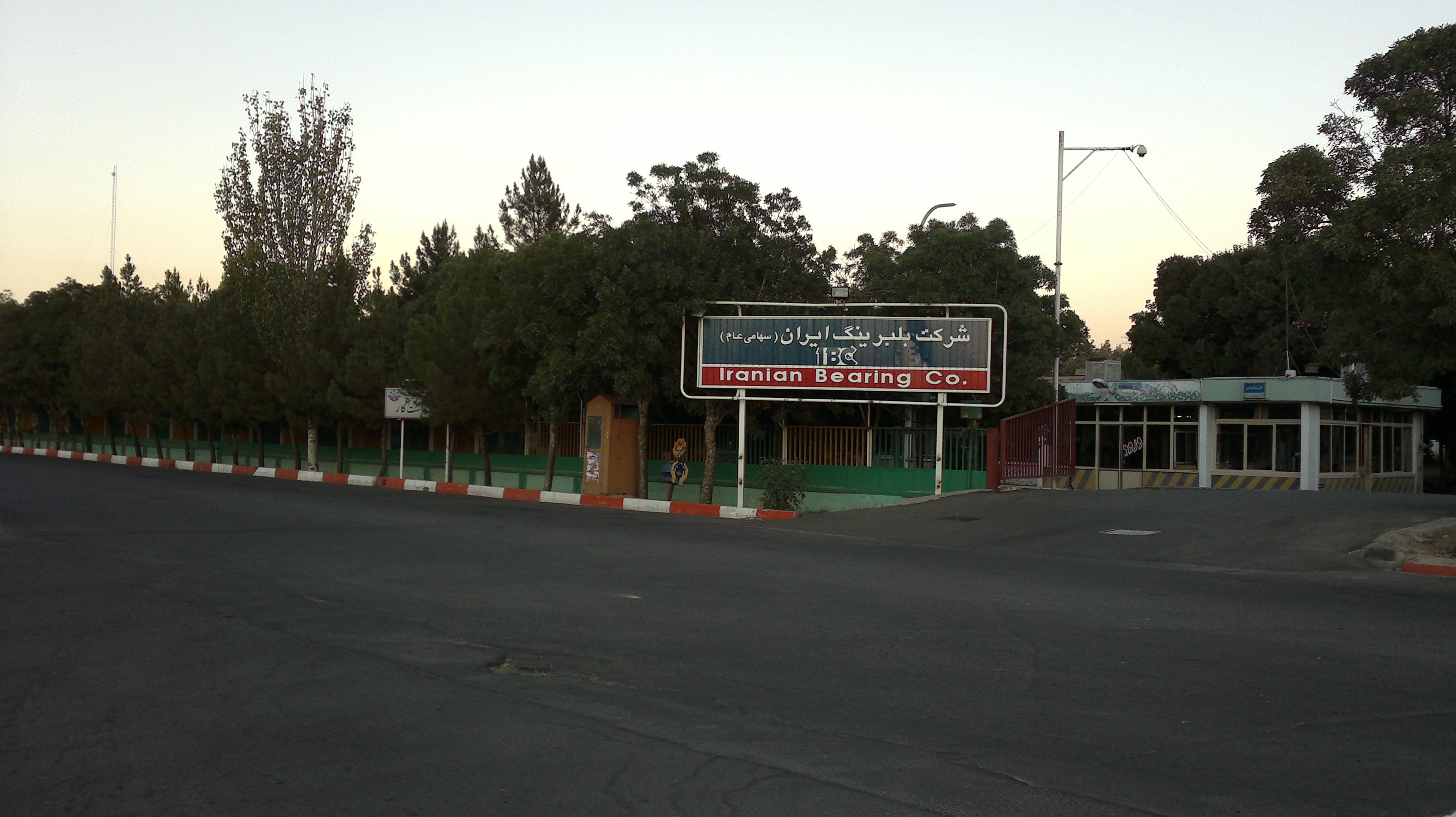 Ballbearingsazi Factory in Industrial area of Shanbeghazan - Tabriz